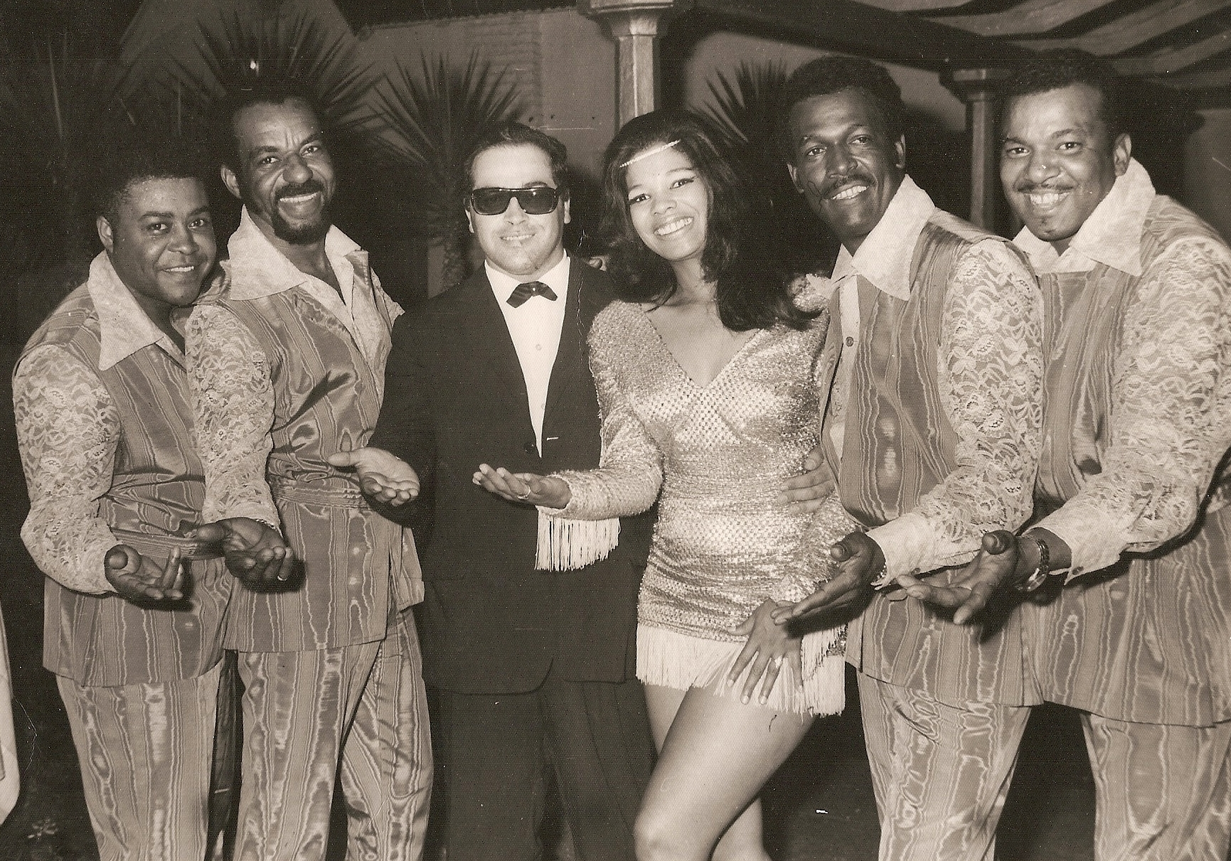 Bob White submitted this picture taken in Buenos Aires, Argentina ca. 1969-71 while he was a member of Paul Robi's group. Thie group consisted of (L to R), Johnny Barnes (lead), Gary Garrett (bass), Beverly Harris, Bob White (baritone) and Paul Robi, (second tenor)